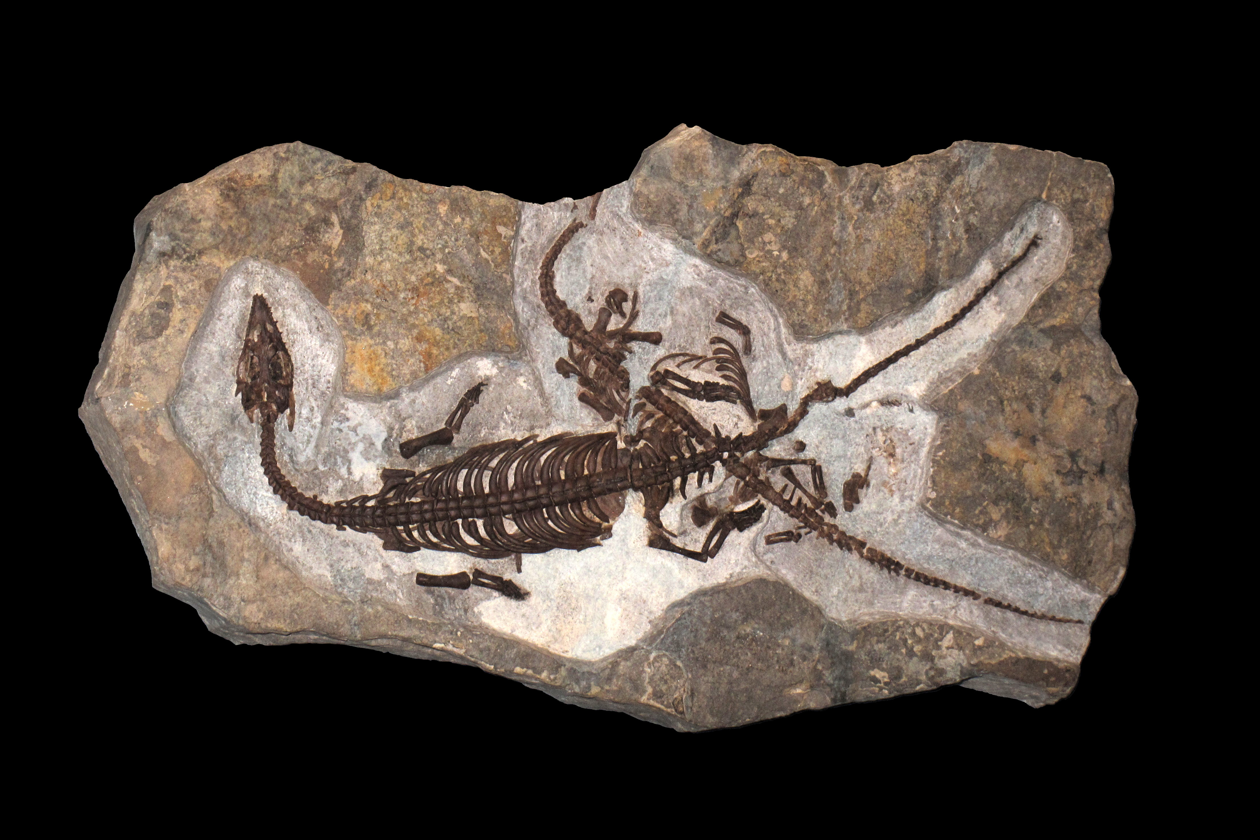 Skeleton of an Serpianosaurus. On display at Zurich natural history museum.